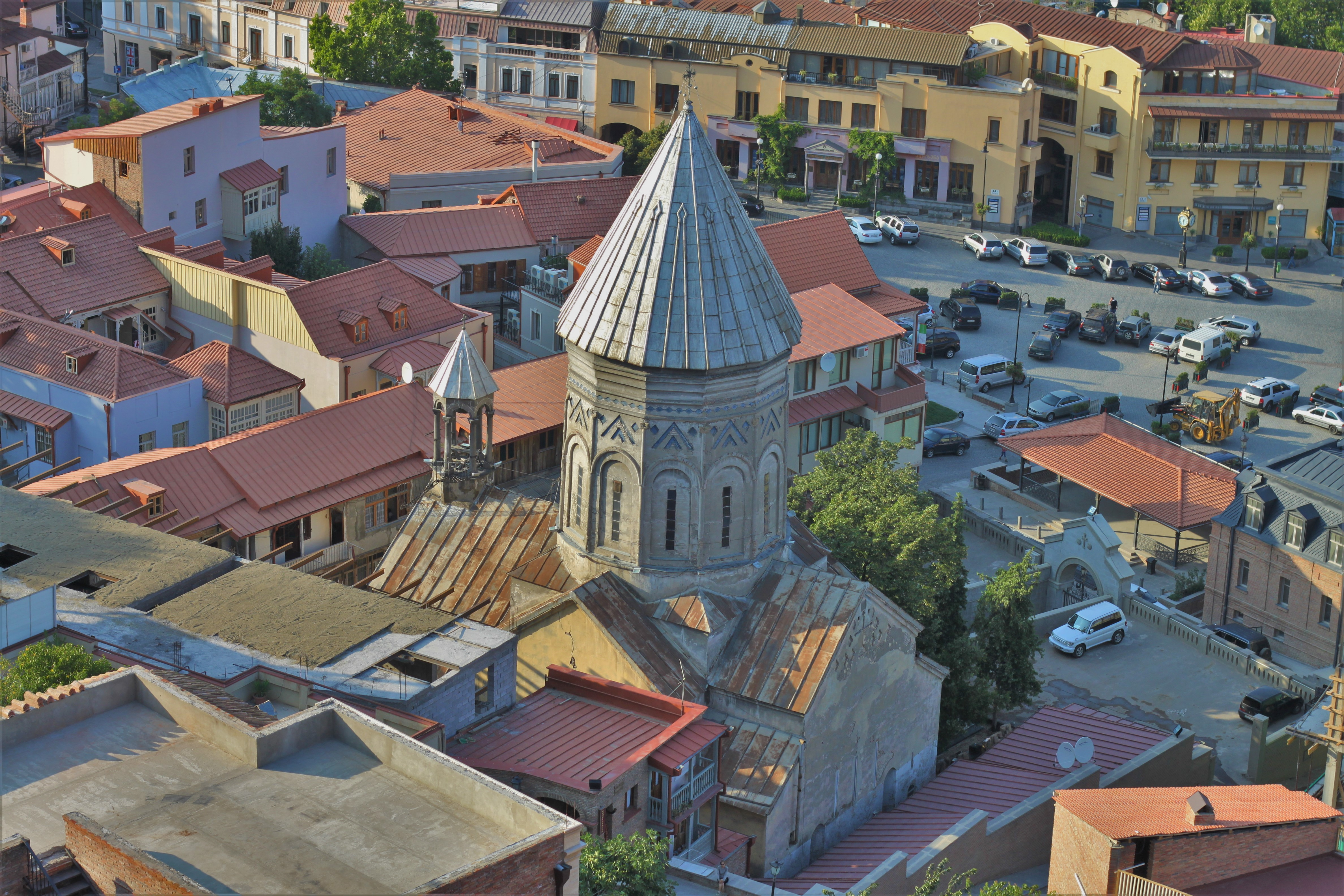 The 13th century Armenian Cathedral of Saint George in Tbilisi, home of the seat of the Armenian archbishop of Georgia.